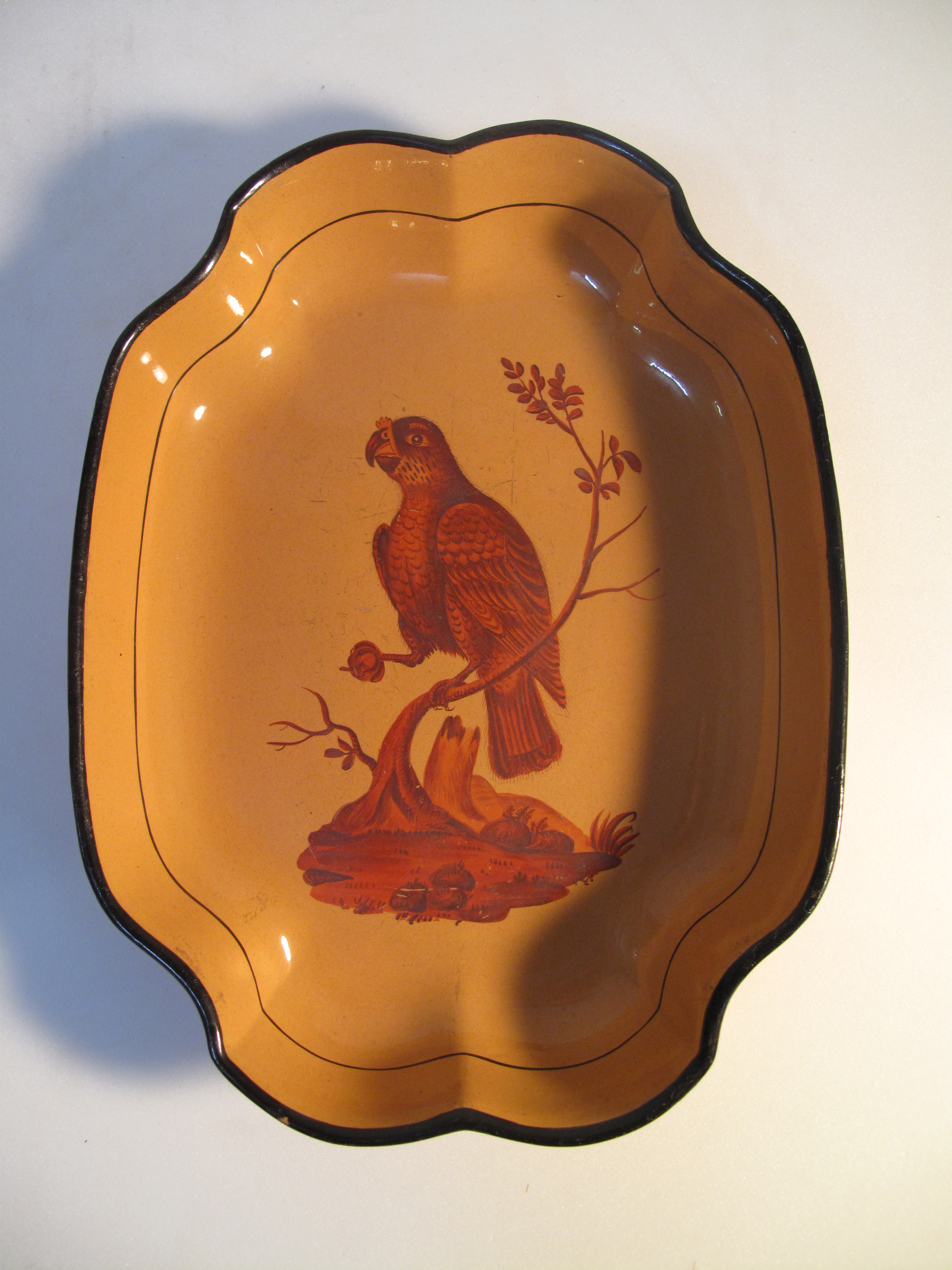 Dish, buff colour orange glaze, parrot design, 'The Lesser Dusky Parrot of Surinam' (packing list 24.10.95), border tree painted reddish brown, black border on rim back and black line about 2cm from rim on outside